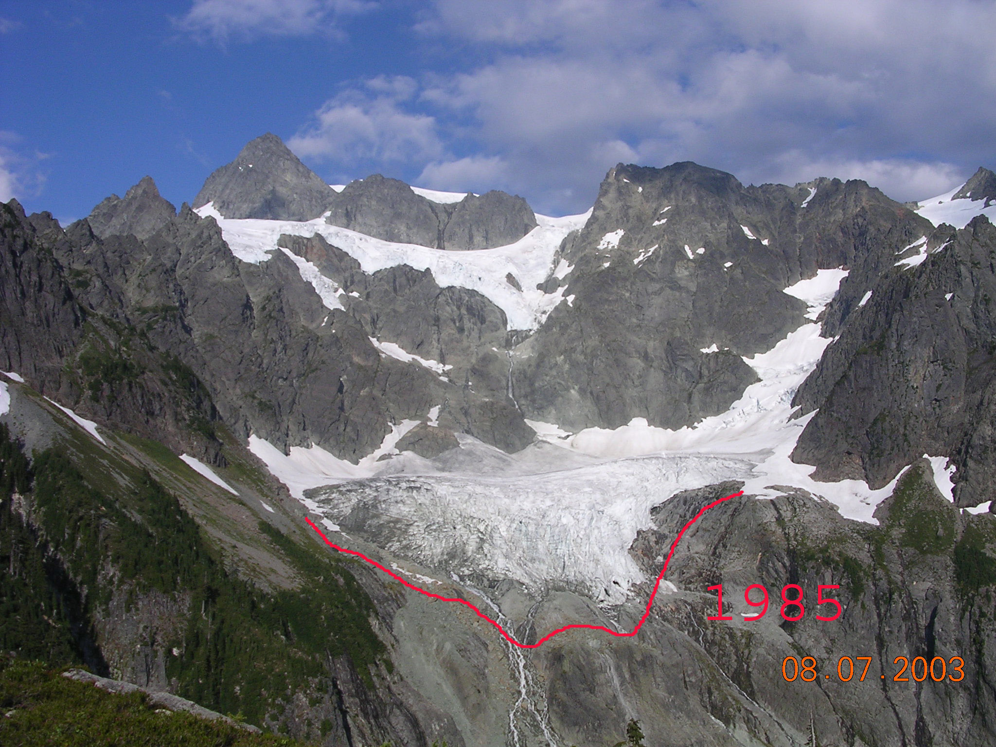 The Lower Curtis Glacier, North Cascades, WA in 2004. This cirque glacier 1985 terminus position is shown in red.